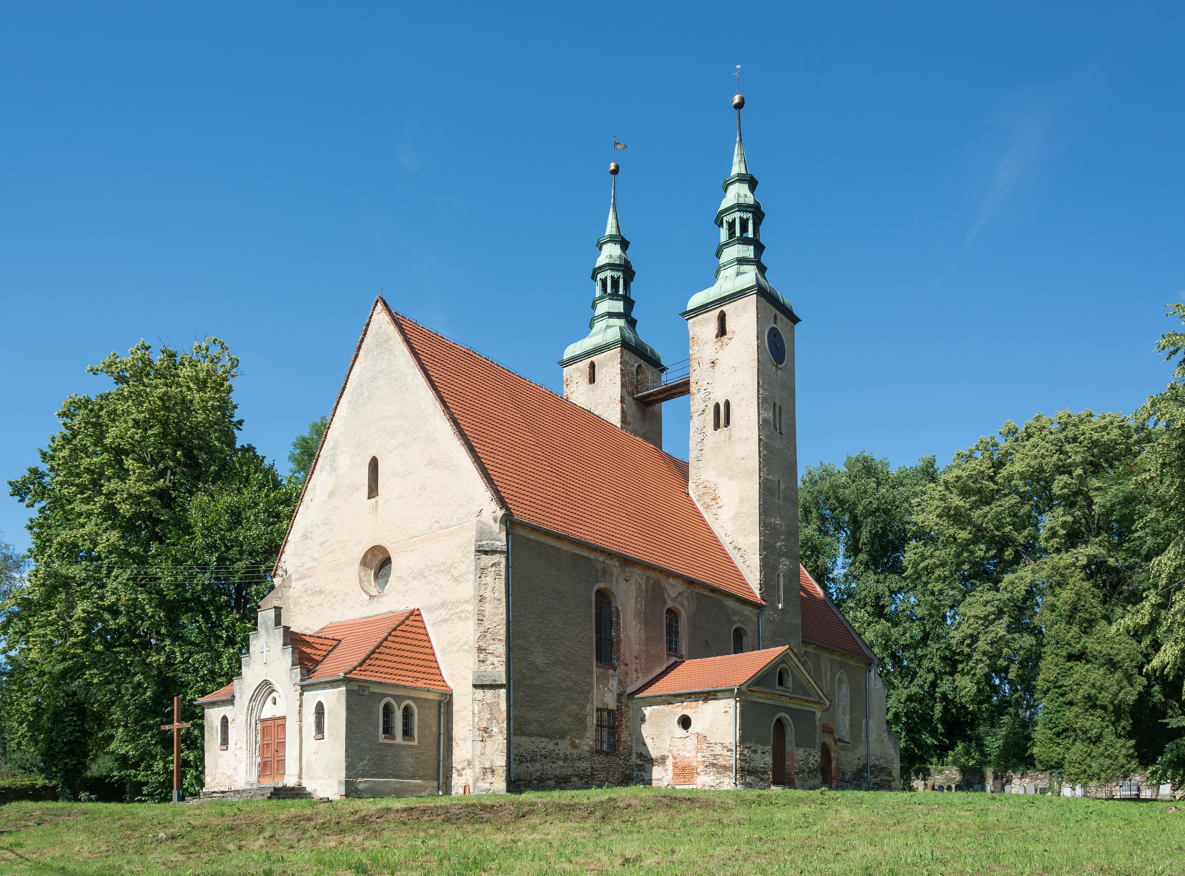 Immaculate Conception and Saint Susanna church in Stolec